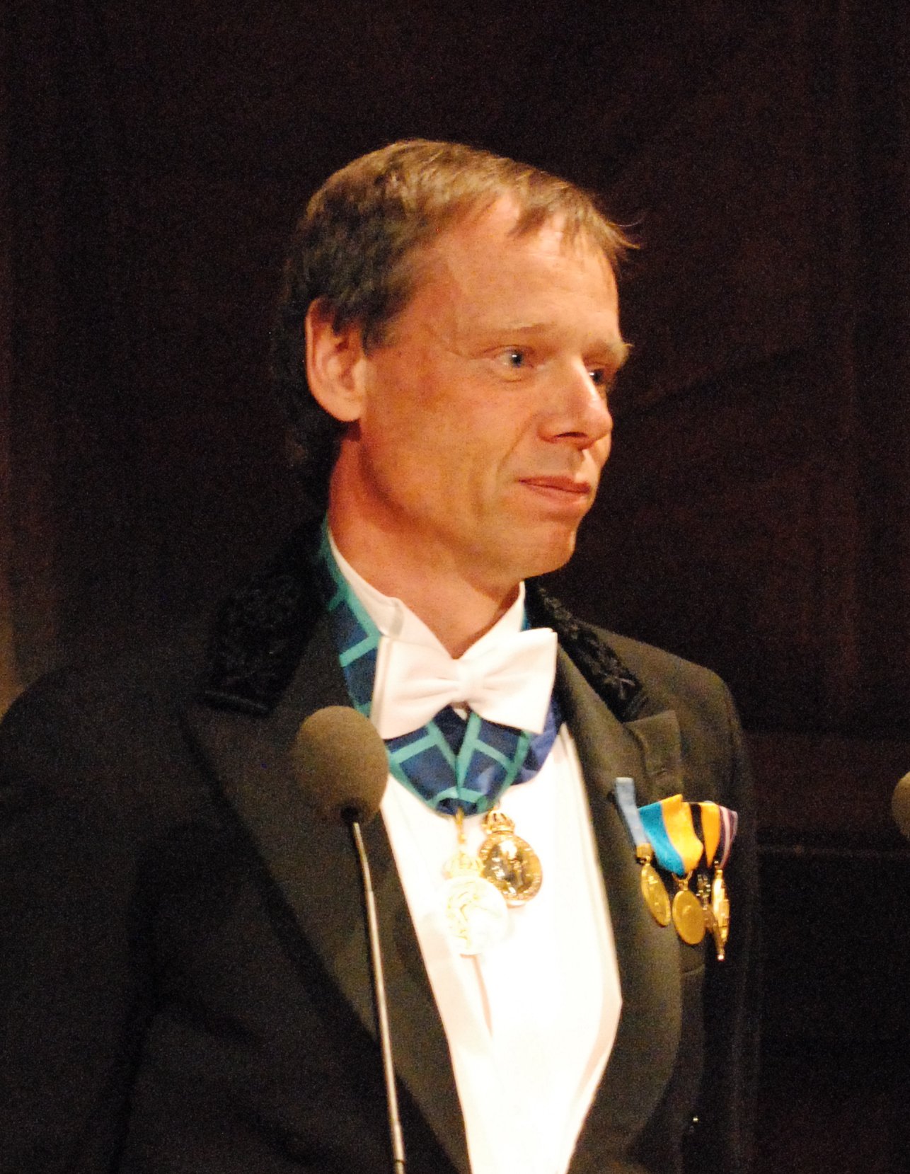 Ceremonial Meeting of the Royal Swedish Academy of Sciences: Christer Fuglesang